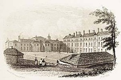 Old print of Colwort Barracks